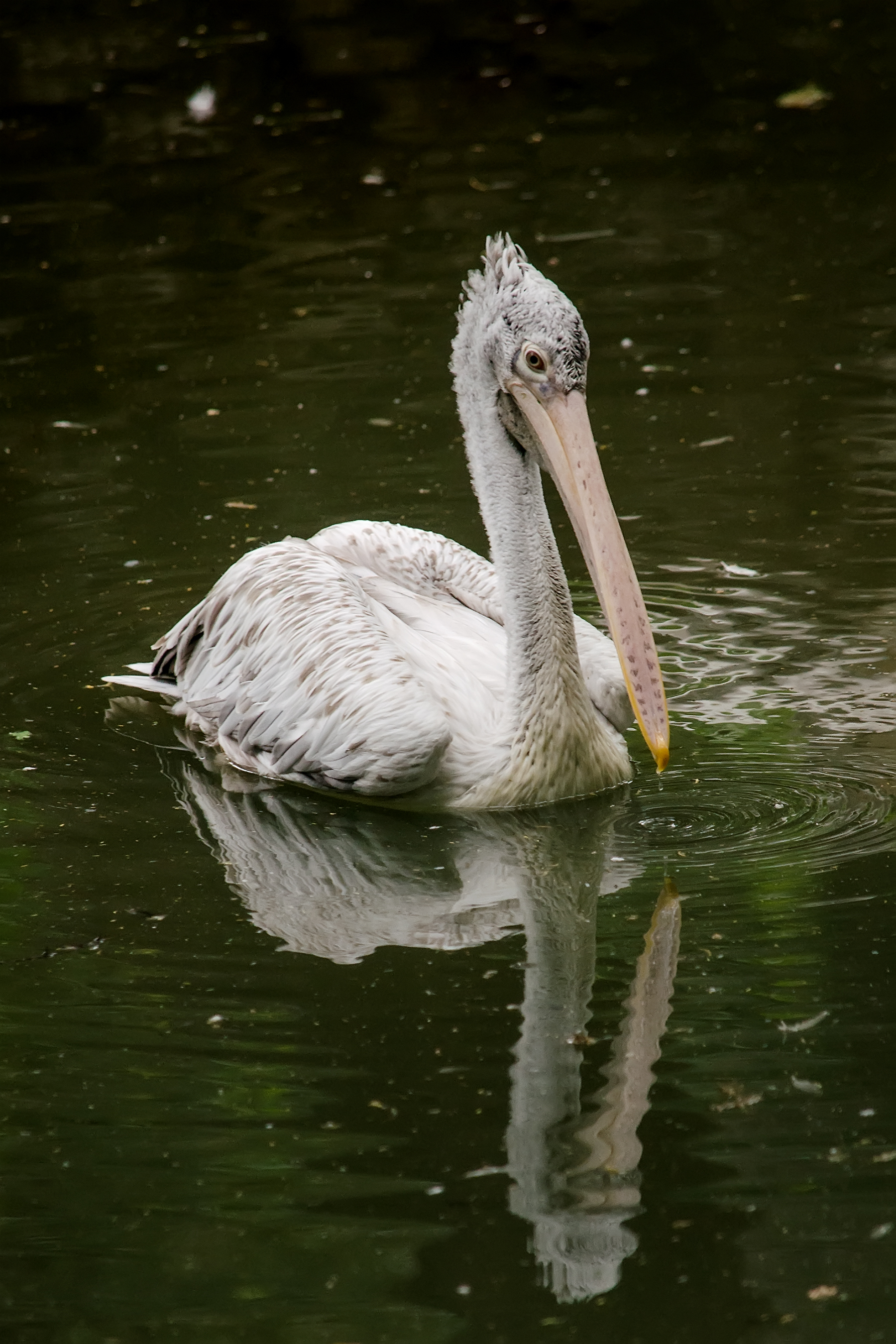 Pelecanus philippensis, Bannerghatta National Park, Bangalore, Karnataka, India